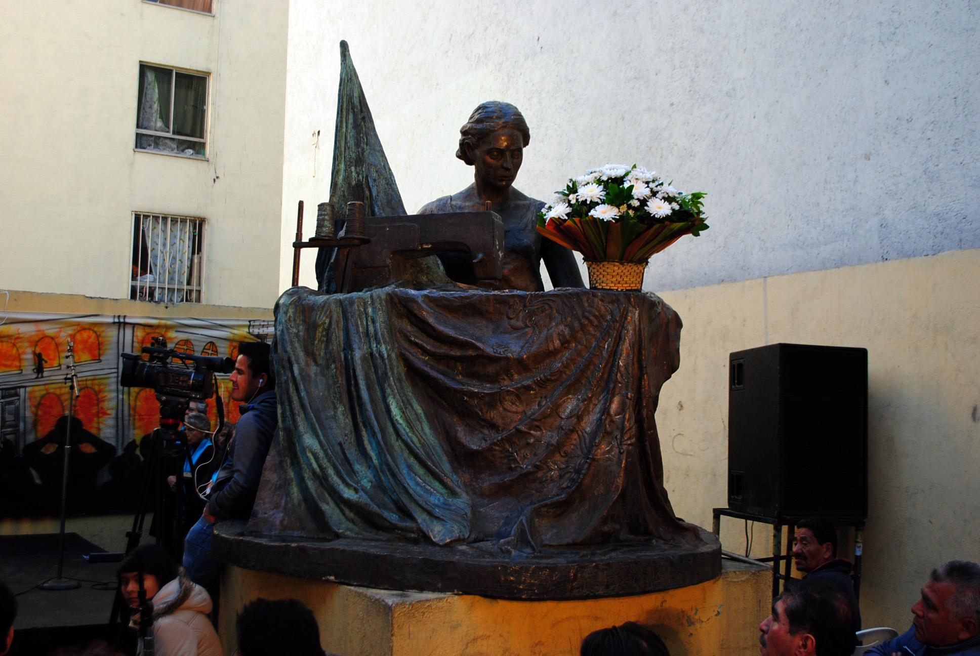 Seamstresses Monument. Commemorative event of the Association of Sewers and Seamstresses September 19, held on September 19, 2014, in Mexico City.